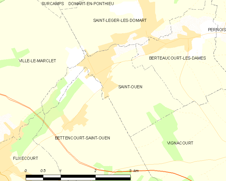 Map of French municipality Saint-Ouen